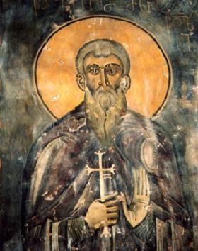 The 11th-century Georgian churchman Euthymius of Athos. A fresco with asomtavruli Georgian letters from the Akhtala monastery (now Armenia)